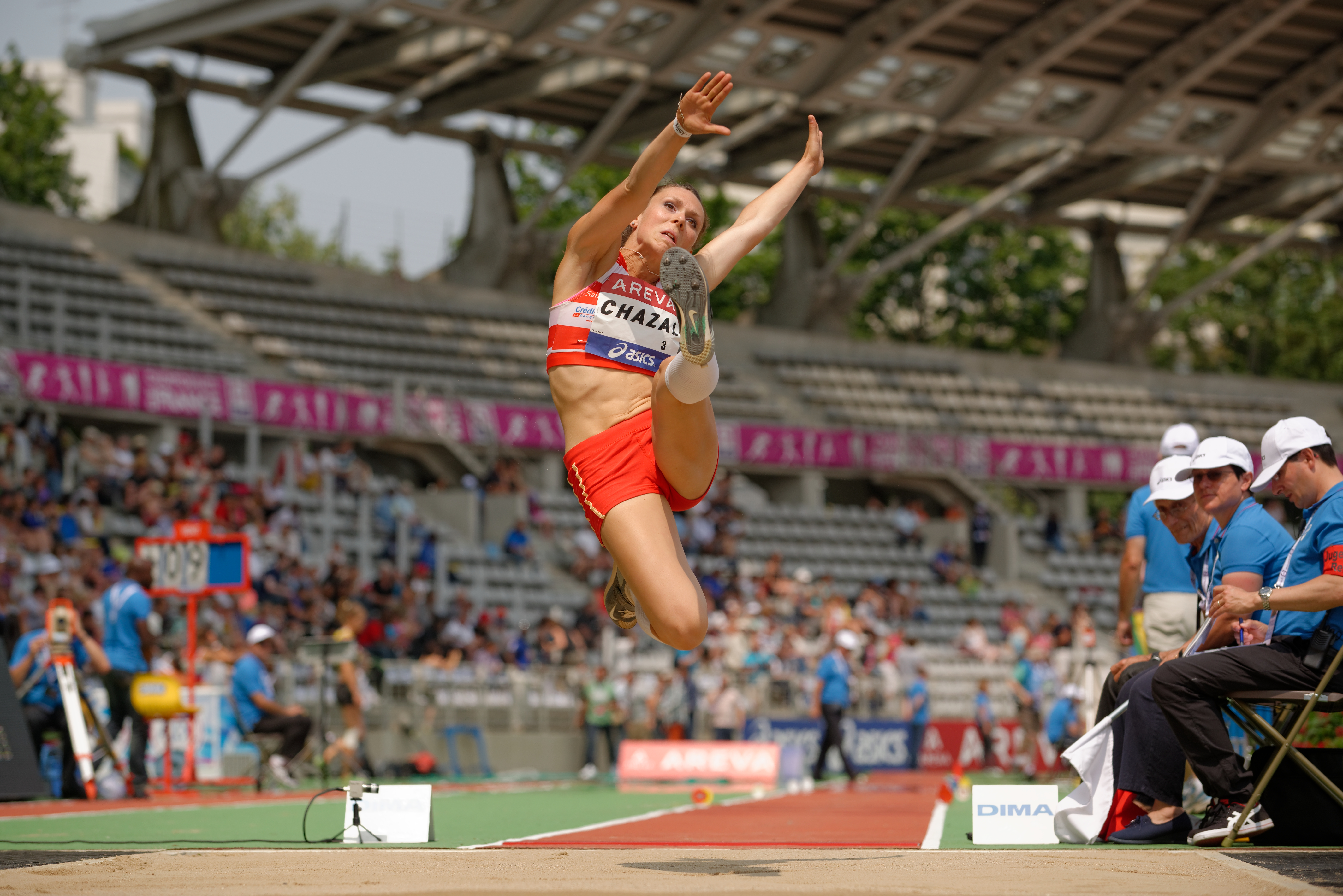 Emmanuelle Chazal competes in the women's heptathlon long jump final during the French Athletics Championships 2013 at Stade Charléty in Paris, 13 July 2013.